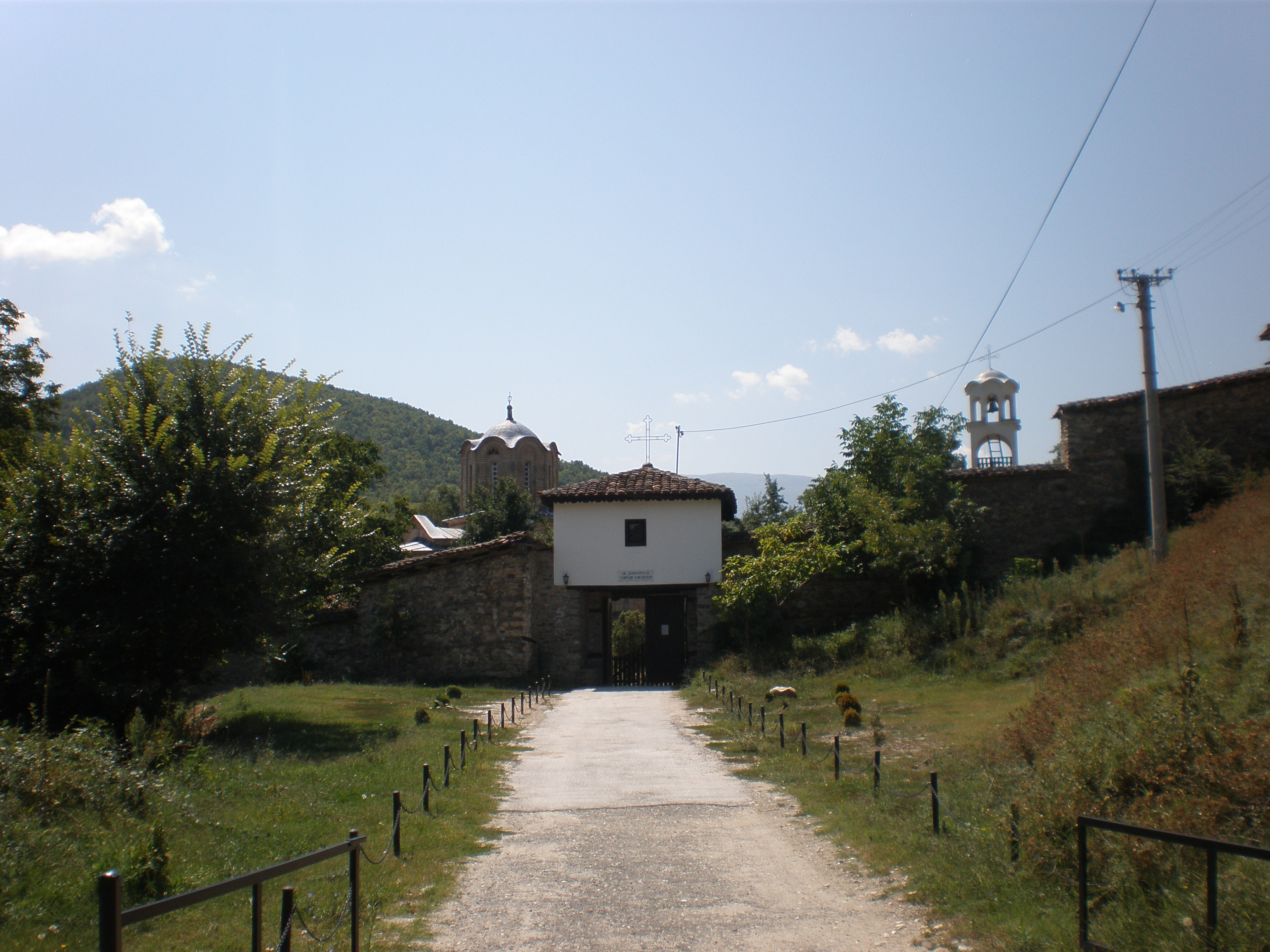 The entrance gate of the King Marco's Monastery in Macedonia